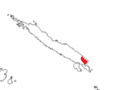 Image showing the extension of the gao language on the island of Santa Isabel